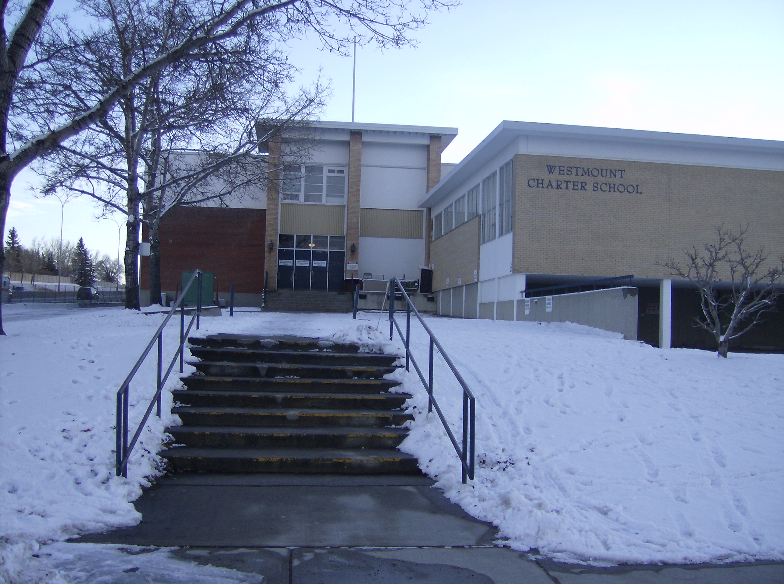 Westmount Charter School is a public charter school located at 2519 Richmond Road S.W., Calgary, Alberta, Canada.